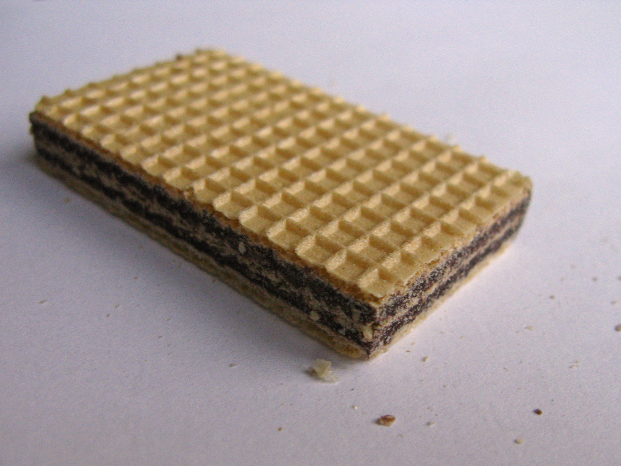 A chocolate filled waffle